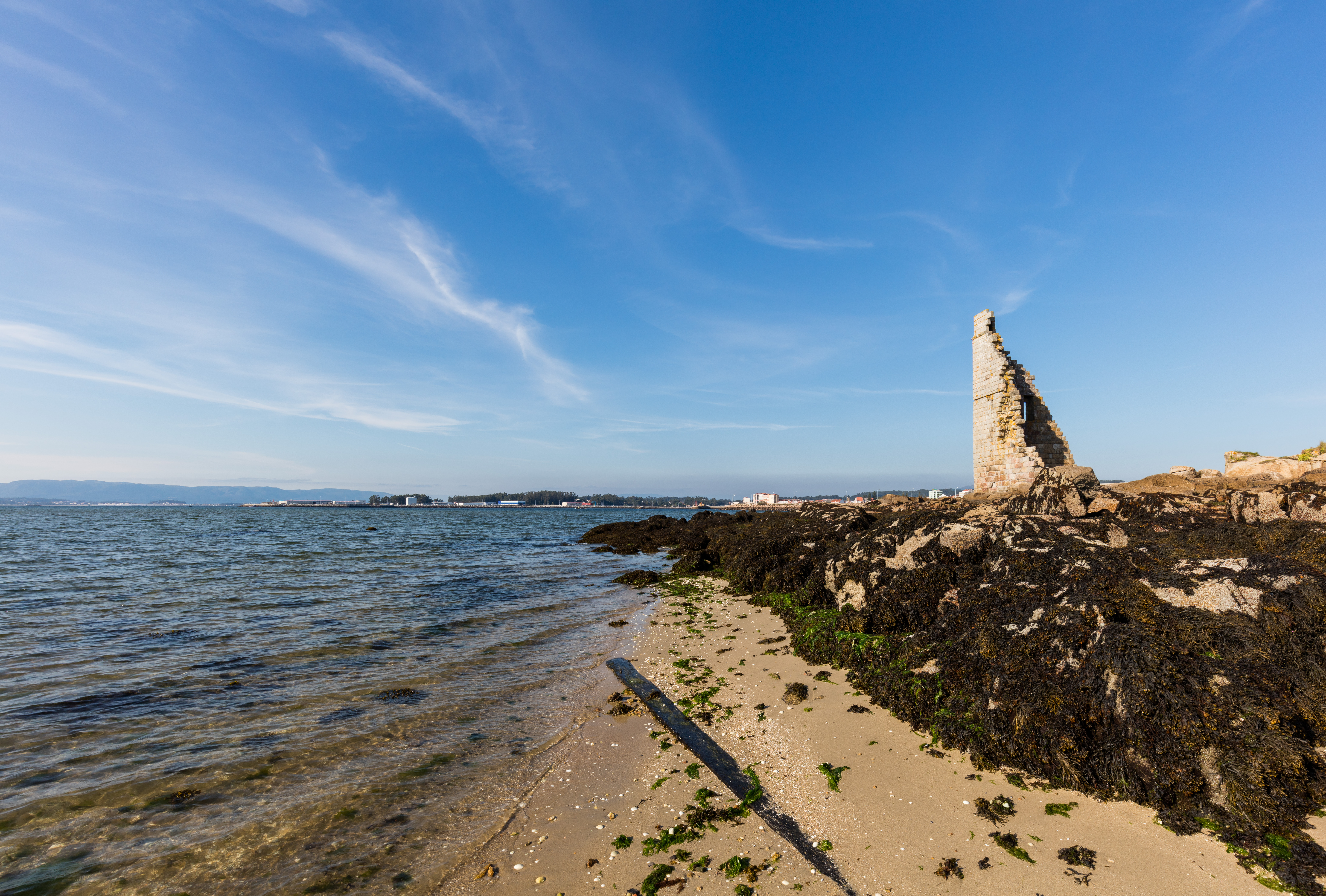 San Sadurniño tower, Cambados, Pontevedra, Spain